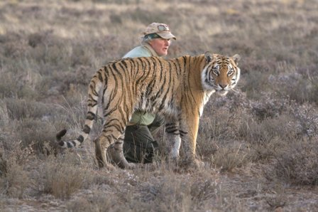 John Varty with Jullie at Tiger Canyons in South Africa